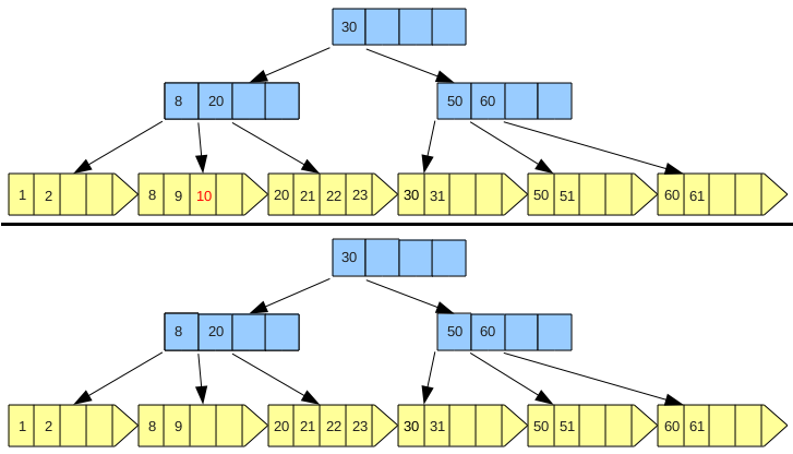 Remotion from B+ tree